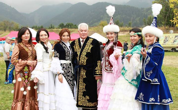 Kazakh national clothes